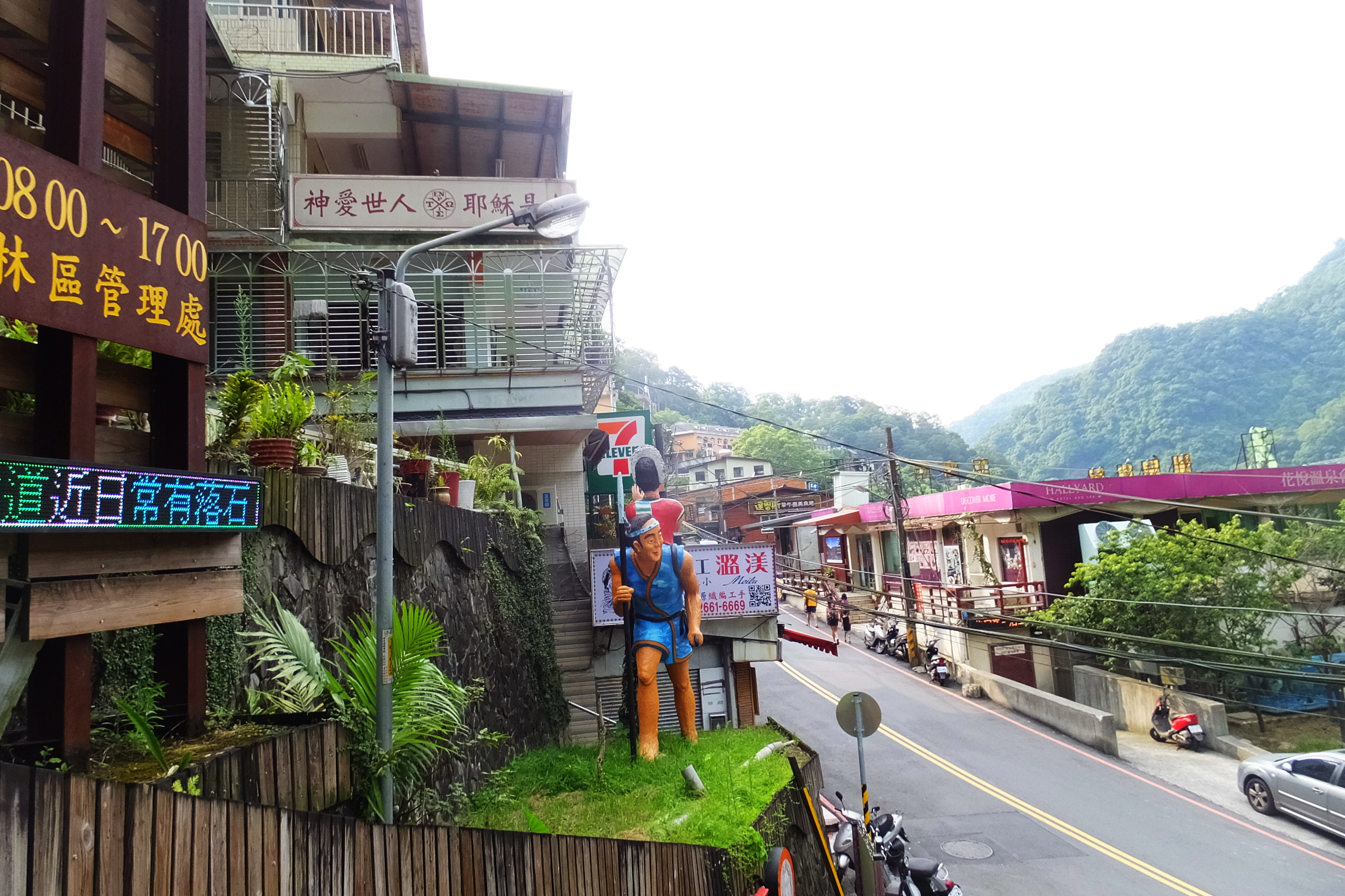 烏來溫泉街 Wulai Hot Spring Street